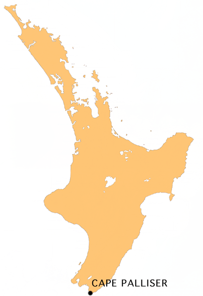 Cape Palliser, North Island, New Zealand